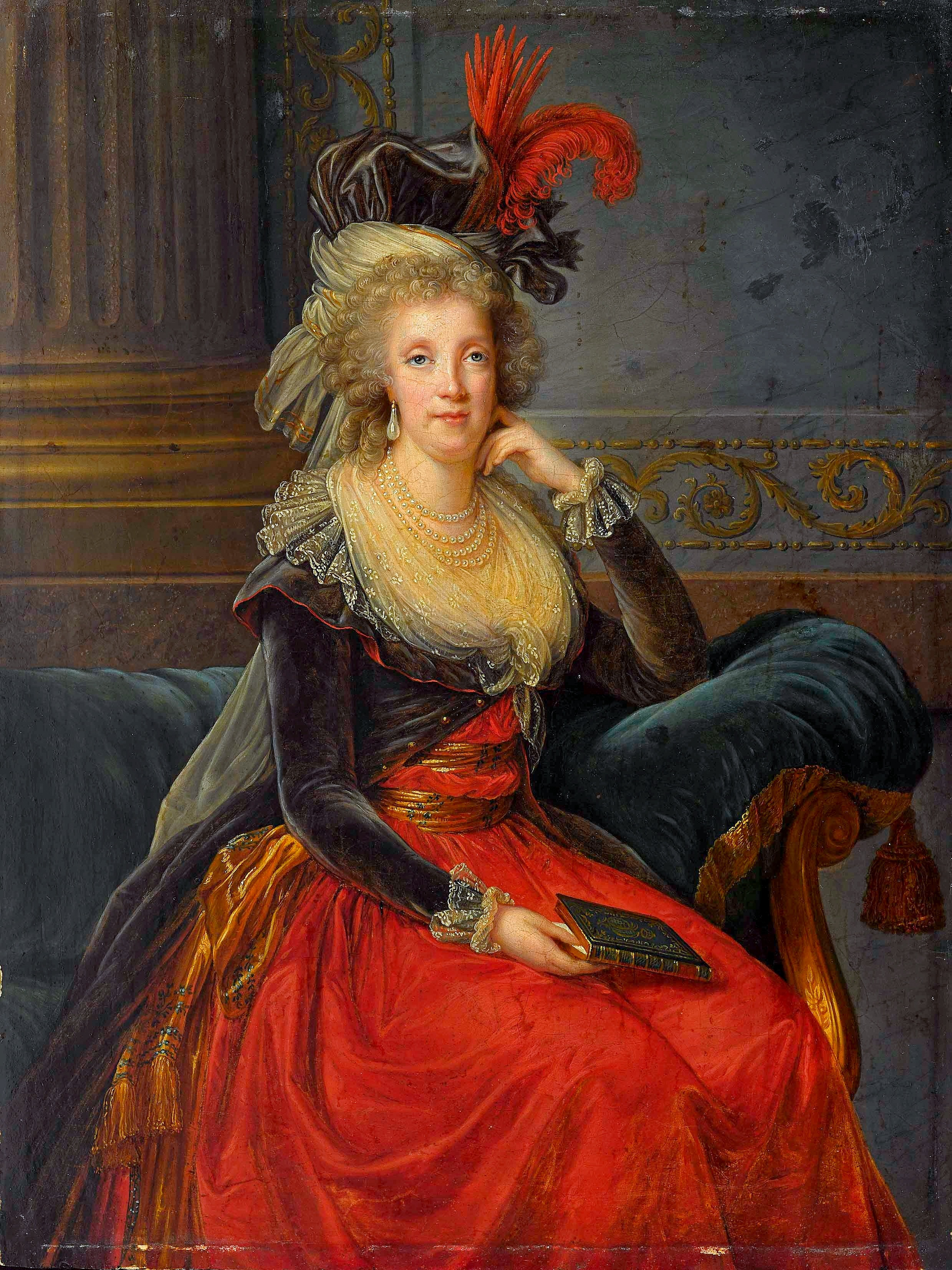 Portrait of Maria Carolina of Austria (1752-1814), Queen consort of Naples